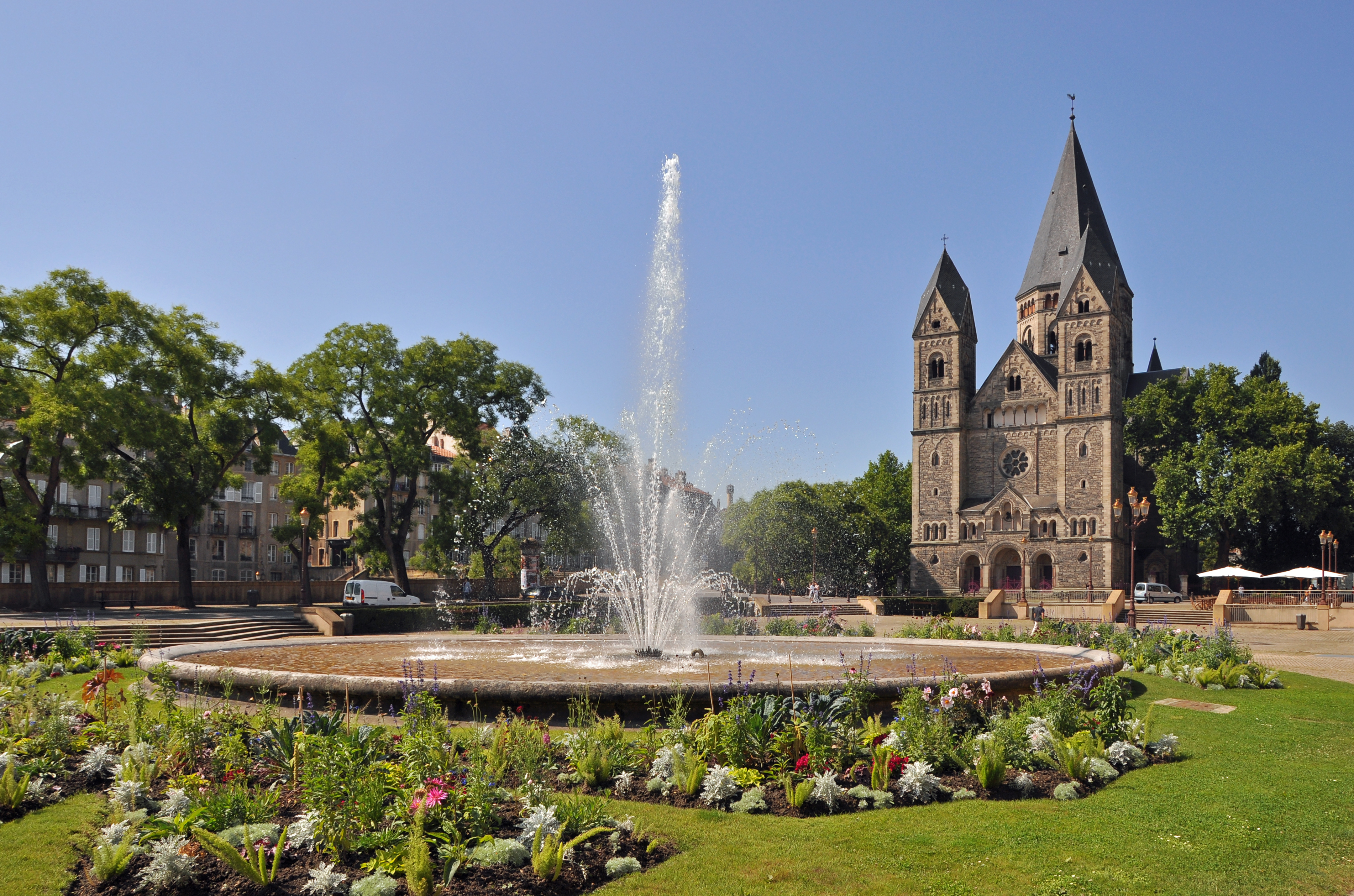 Metz (France): the Place de la Comédie and the Temple Neuf